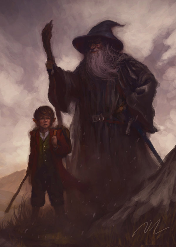 Over Hill (Bilbo and Gandalf) by Joel Lee